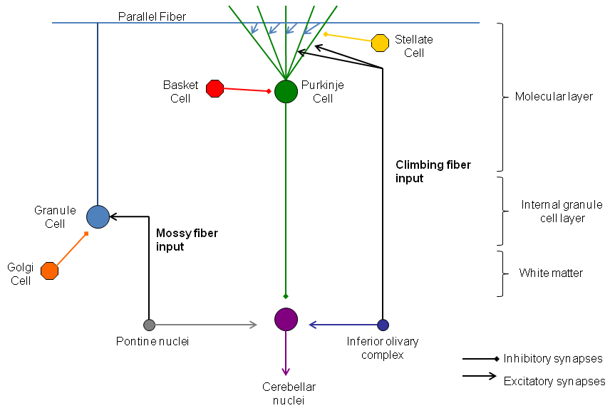 Neuronal network in the cortex showing the pathways of connectivity between granule cells, purkinje cells and interneurons